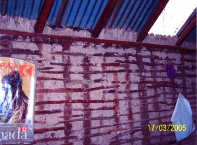 Mountain View Homestead and General Store: Mountain View Homestead interior